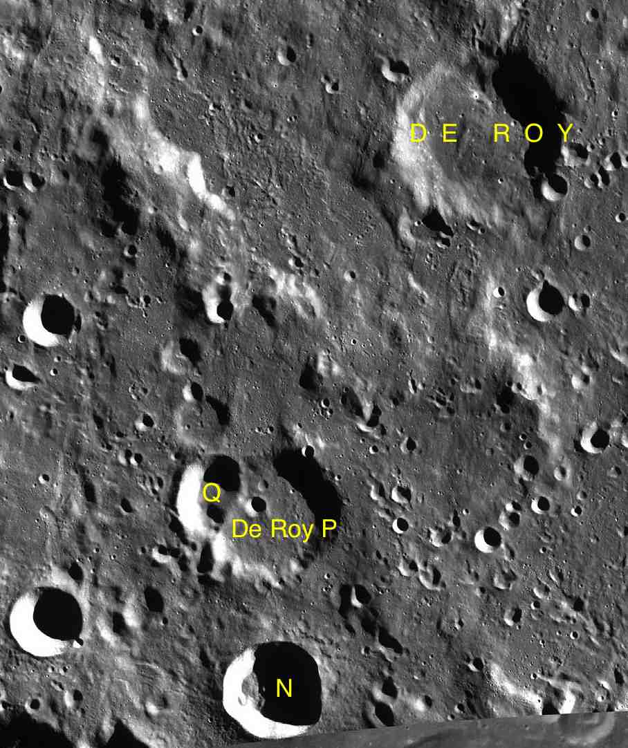 Part of the chart LAC-135 used for the presentation